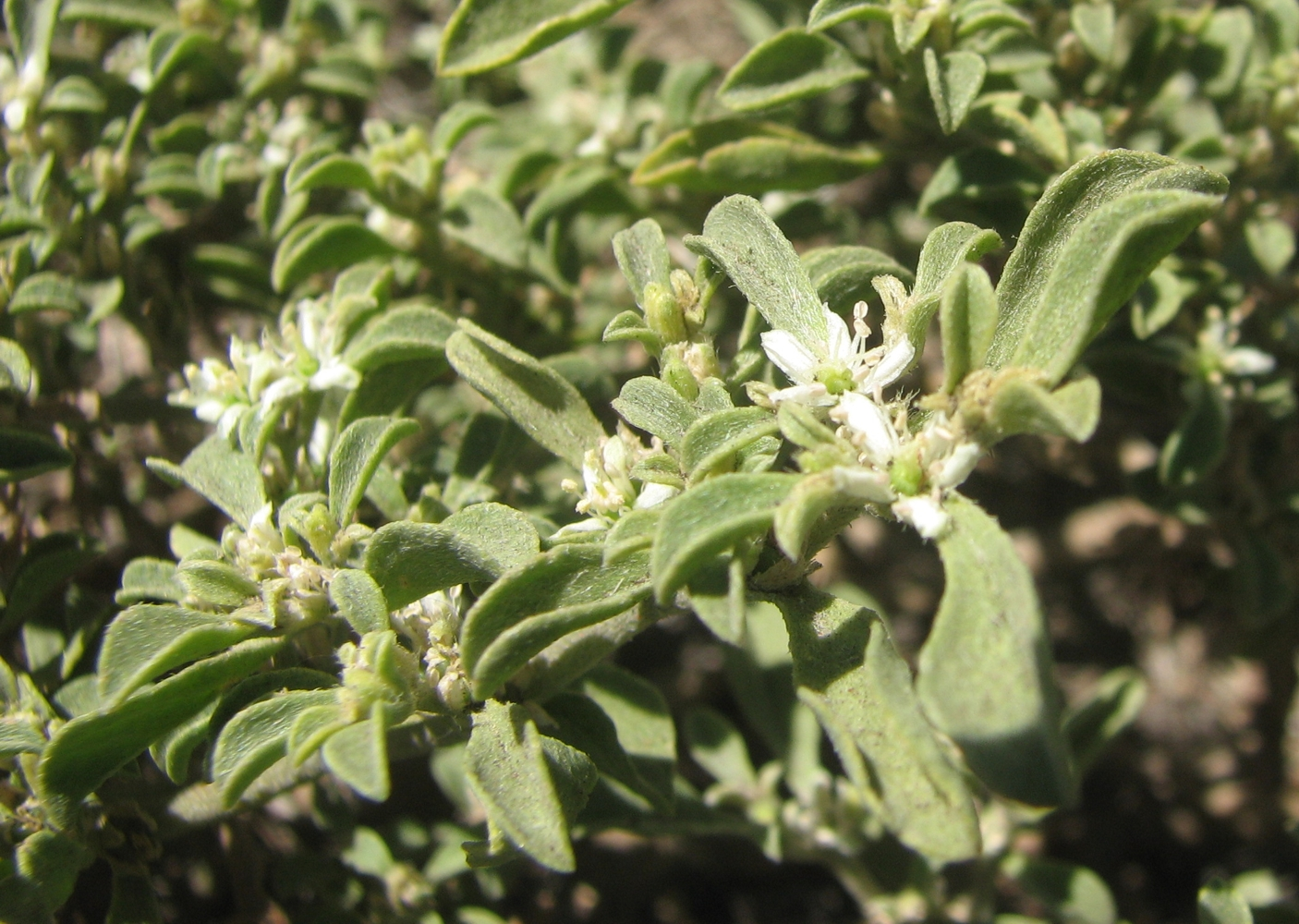 Galenia pubescens (naturalised), Williamstown, Victoria, Australia